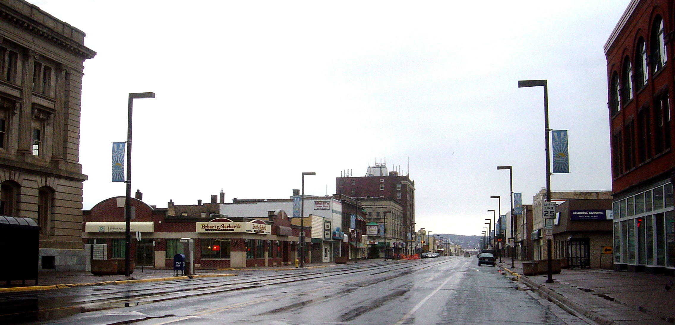 Downtown Superior, Wisconsin.